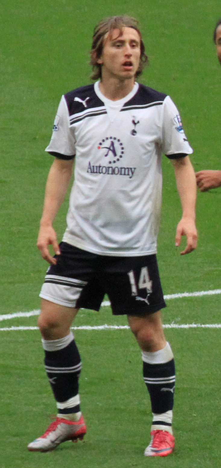 Laurent Koscielny (6) of Arsenal F.C. clashes with Heurelho Gomes of Tottenham Hotspur F.C. in November 2010.